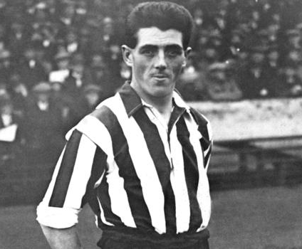 Fred Tunstall playing for Sheffield United.